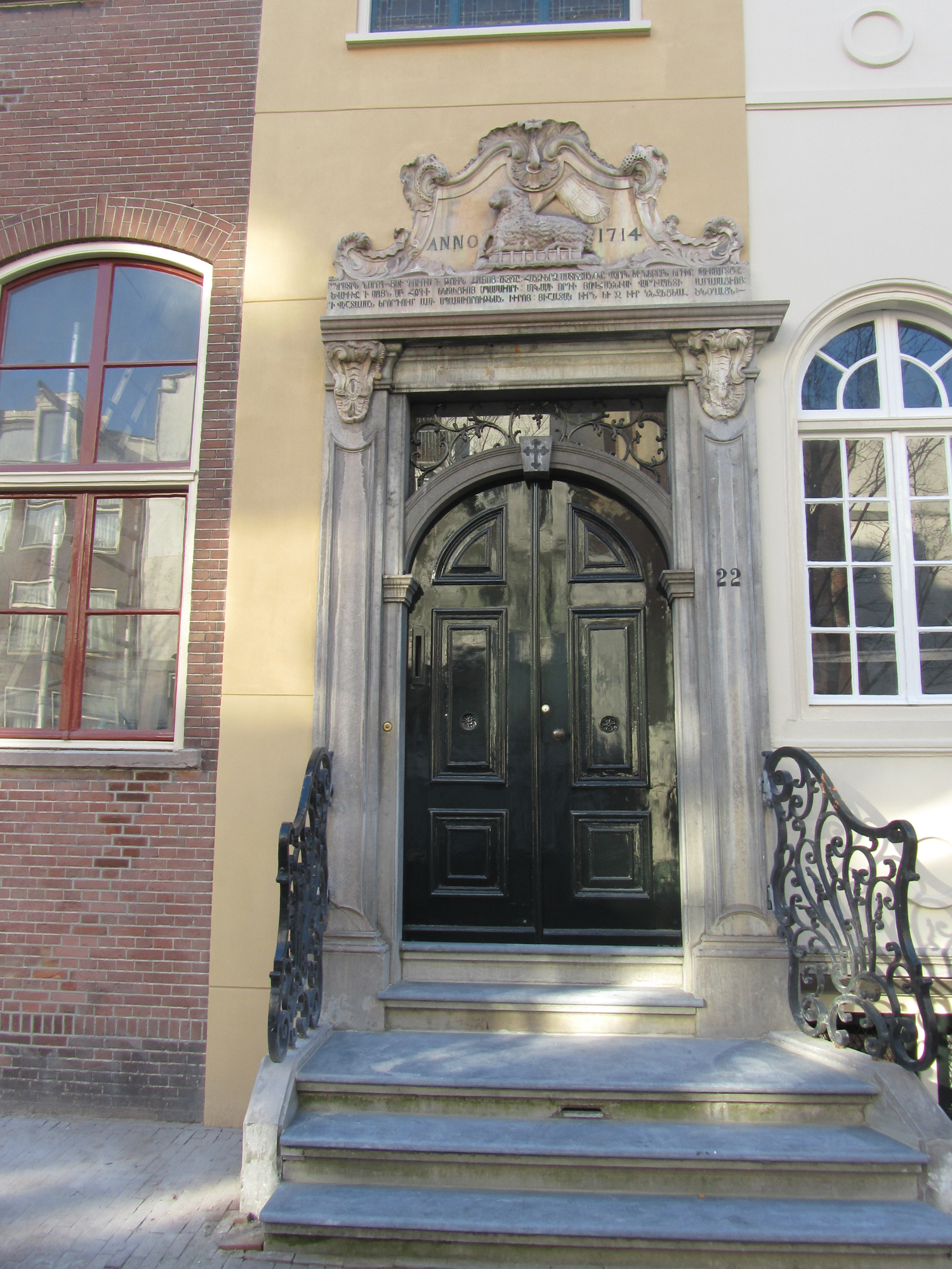 Gate of the Armenian Apostolic Church in Amsterdam